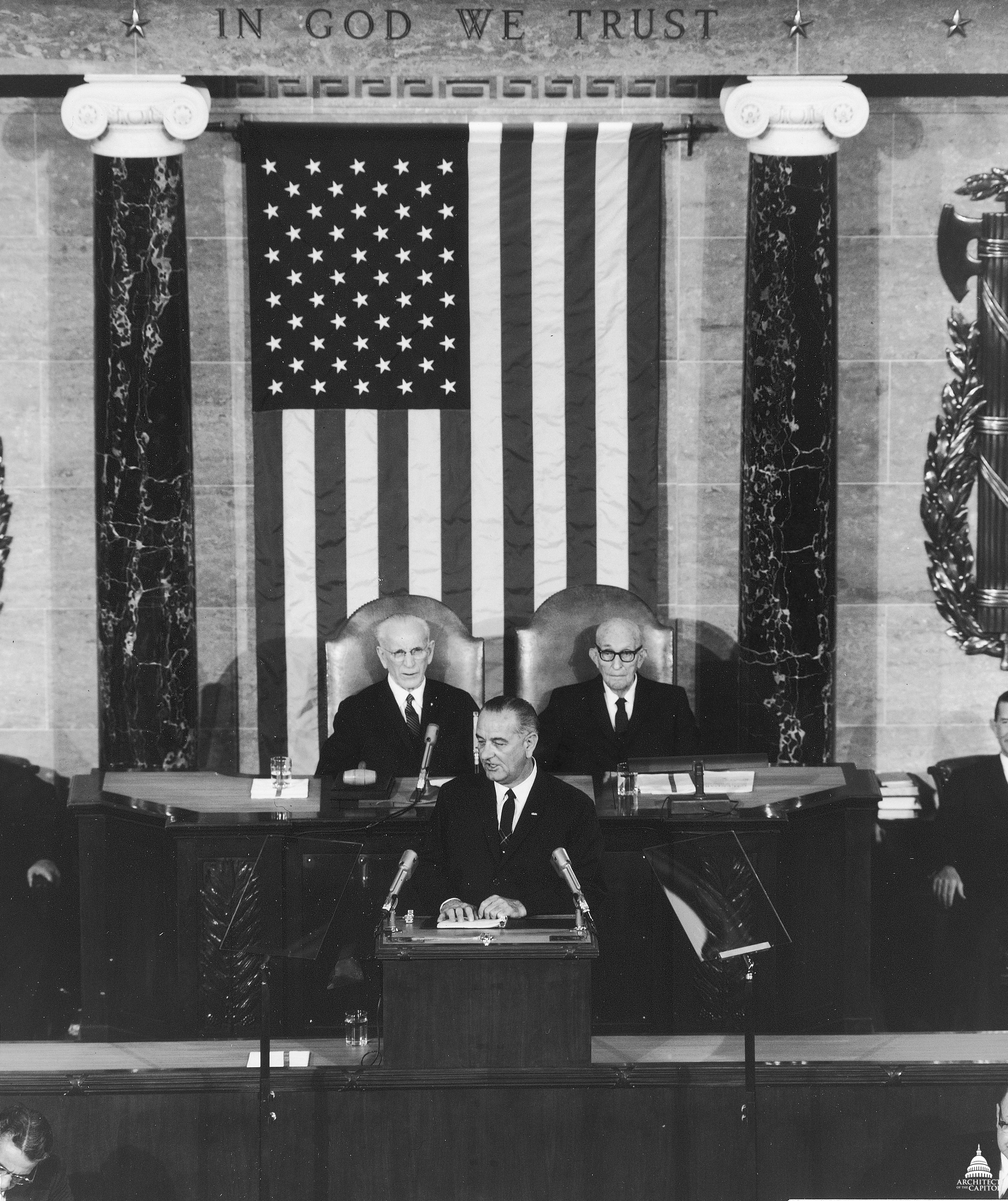 Lyndon B. Johnson gives the State of the Union Address in the U.S. Capitol in 1965. To capture more of the television audience, President Lyndon Johnson gave the first evening State of the Union address during primetime broadcasting. This official Architect of the Capitol photograph is being made available for educational, scholarly, news or personal purposes (not advertising or any other commercial use). When any of these images is used the photographic credit line should read “Architect of the Capitol.” These images may not be used in any way that would imply endorsement by the Architect of the Capitol or the United States Congress of a product, service or point of view. For more information visit